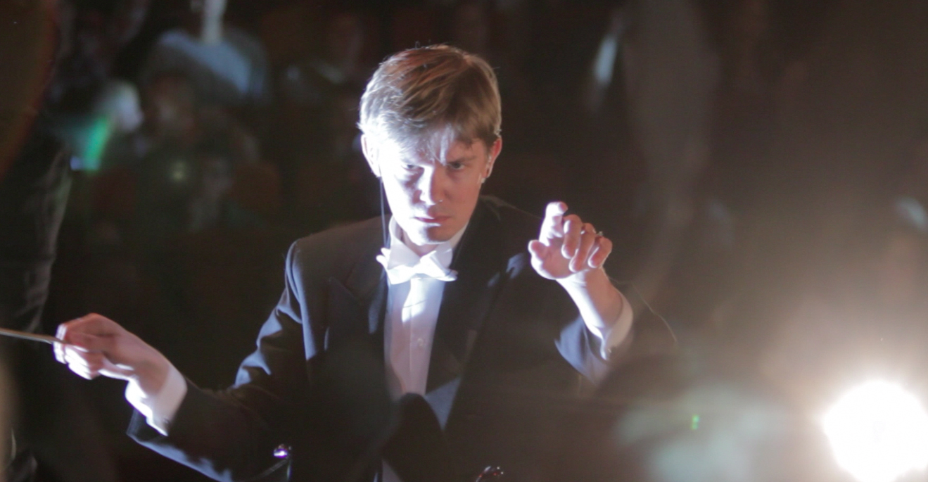 Still photo from a video shot by Baltazar Hertel in the Copenhagen Concert Hall, September 10, 2011. Frederik Magle conducted the symphony orchestra and played organ at the release concert for the album 'Elektra' by Danish group Suspekt.